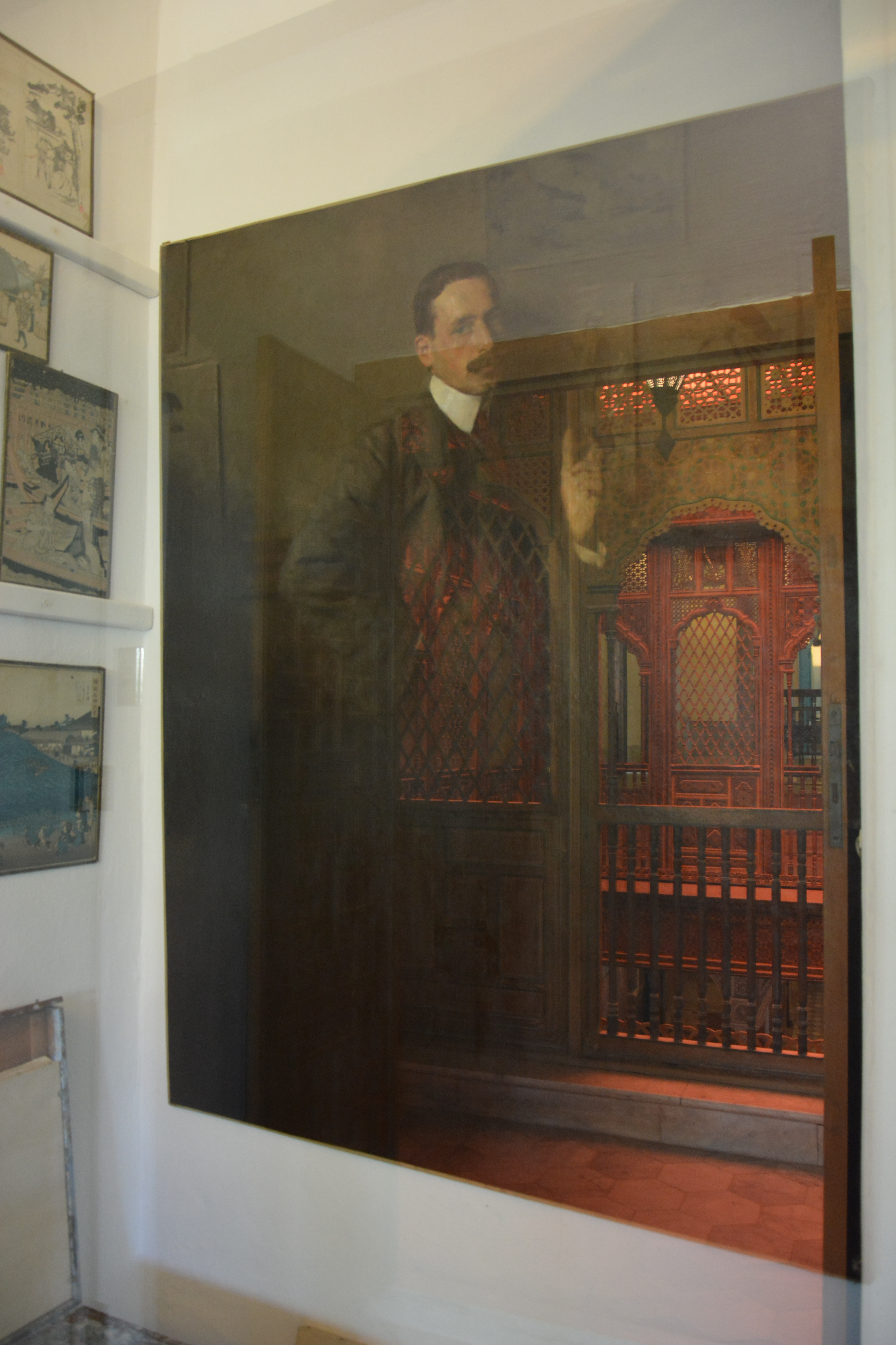 Self portrait of Rodolphe d'Erlanger in his Gallery of Paintings located in Tunisia in Ennajma Azzahra Palace.